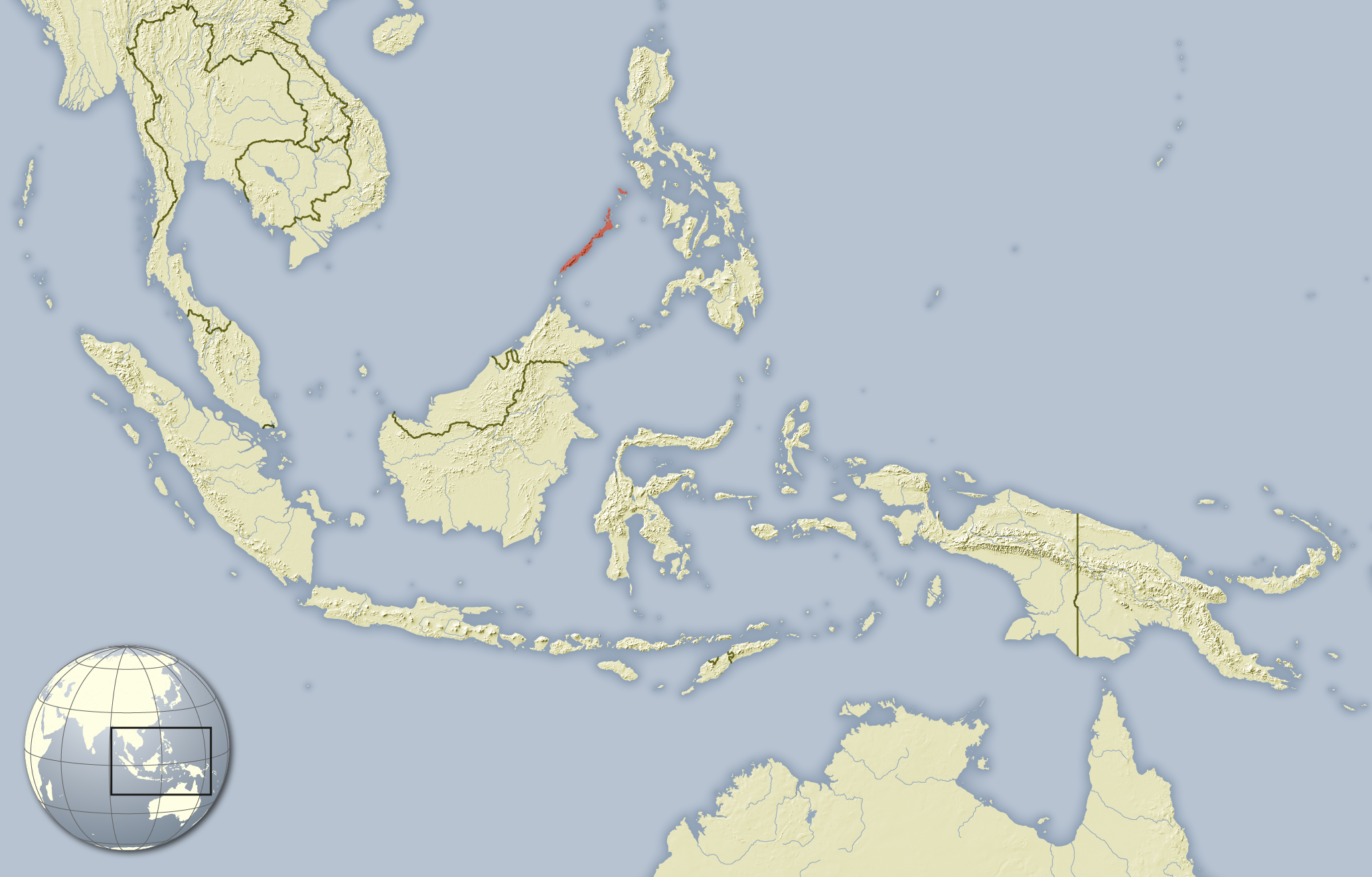 Distribution map of the Philippine porcupine